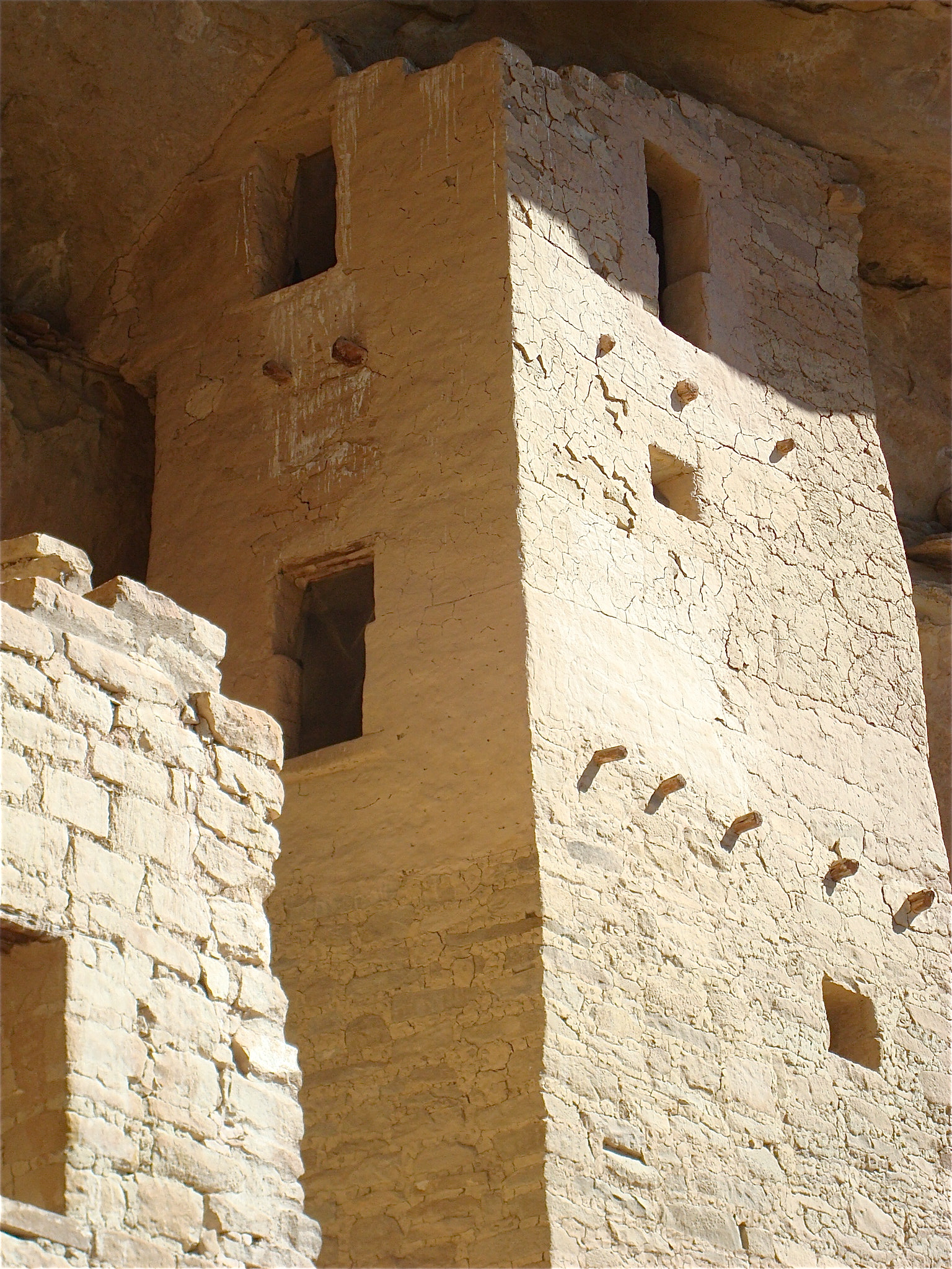 Stonework. The quality of the Ancestral Puebloan's stonework varied greatly from building to building, Mesa Verde National Park, Colorado USA.